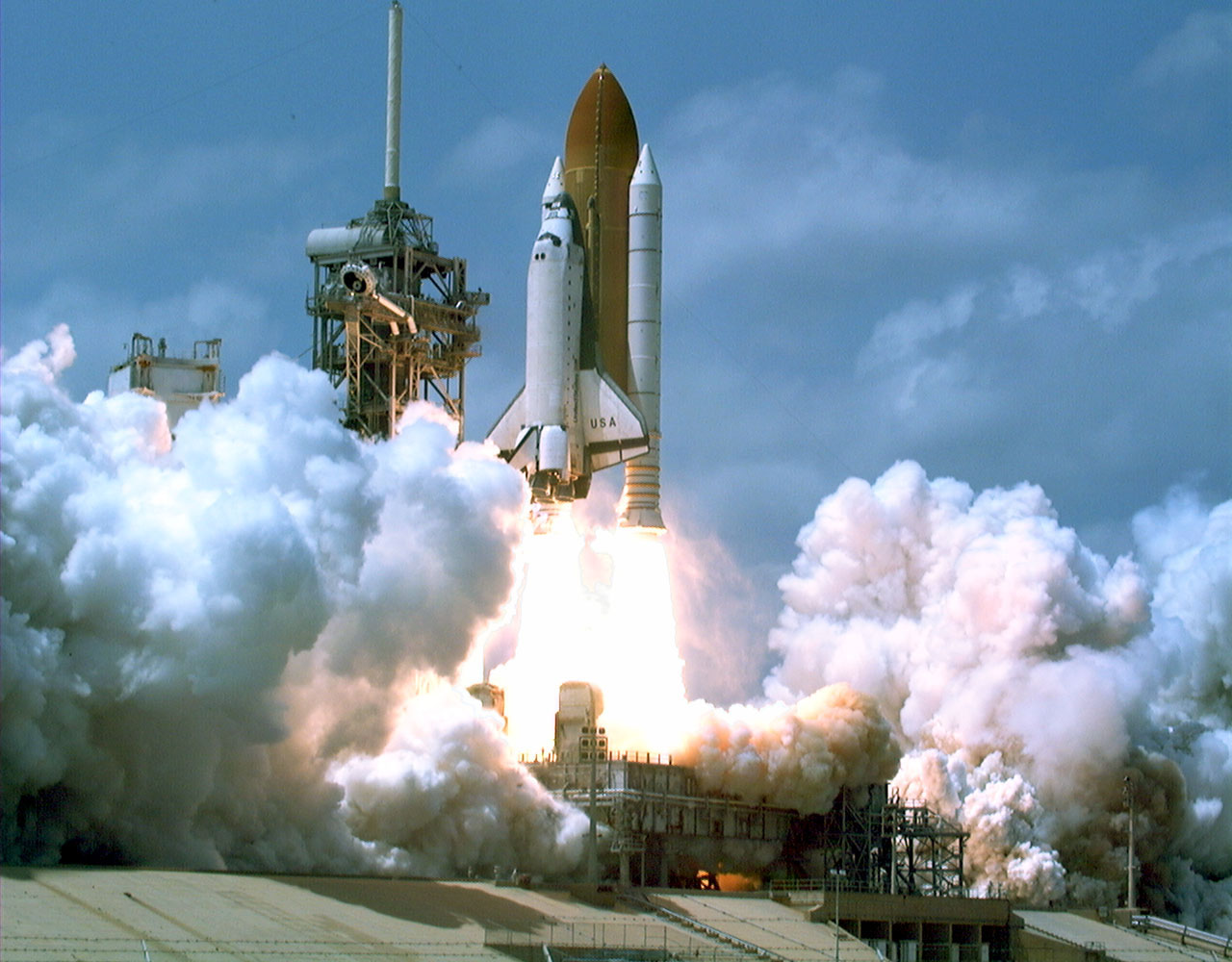 STS-90 Columbia launch from LC-39B at KSC.